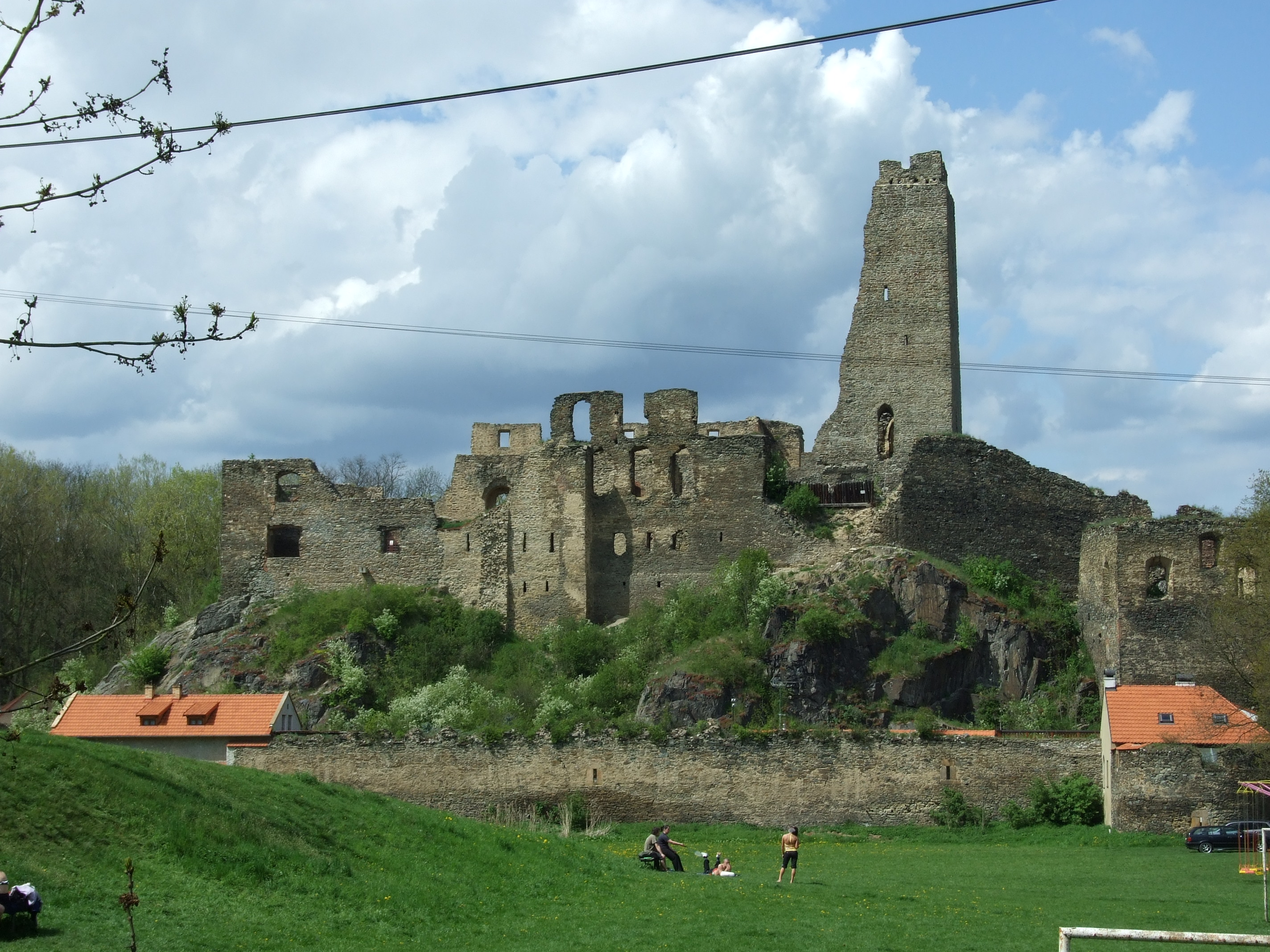 Okoř, village in Central Bohemian region, known because of its castle ruins